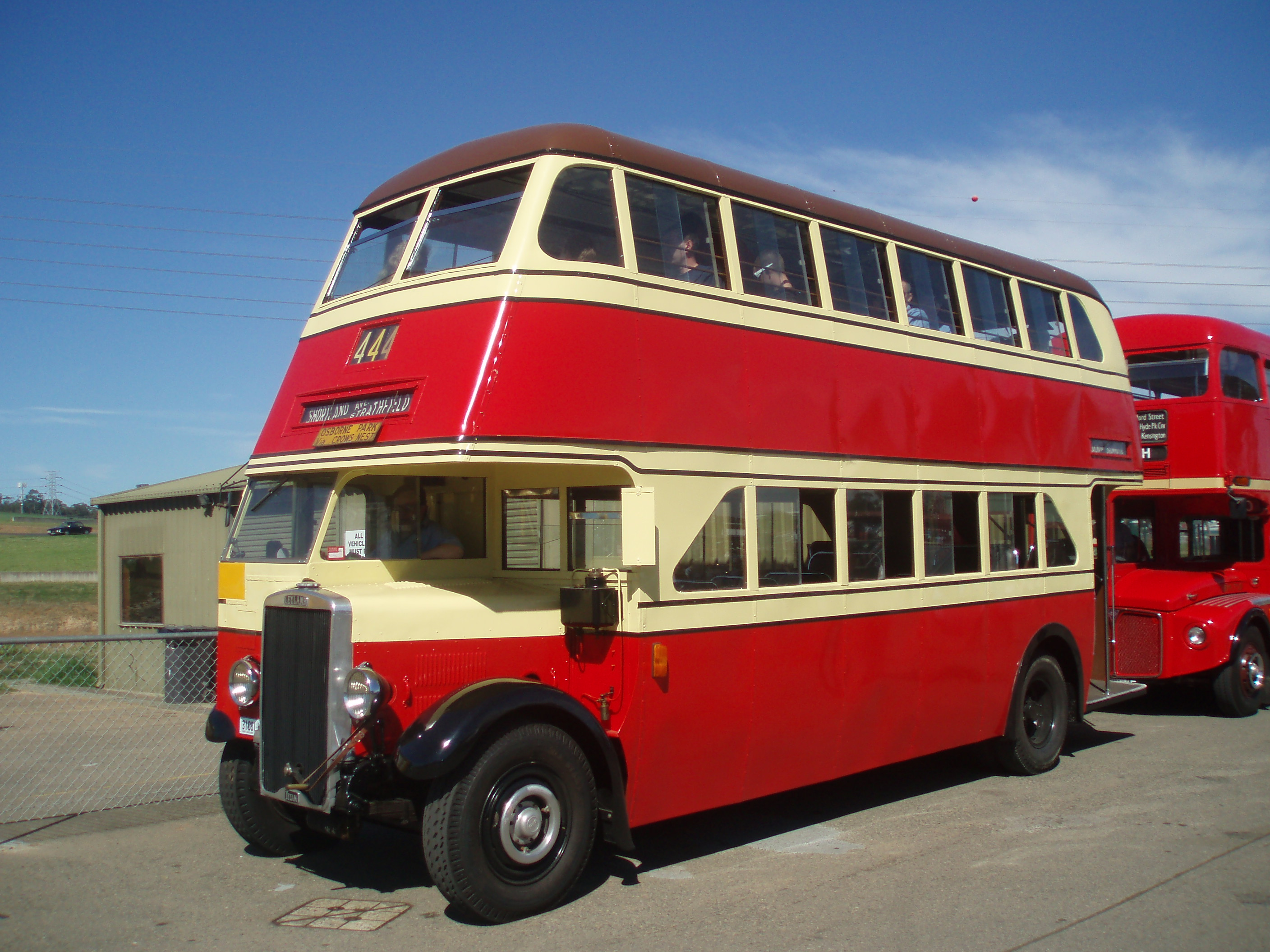 1936 Leyland Titan double decker bus. In the livery of the New South Wales Public Transport Commission. Part of the Sydney Bus Museum collection. Taken at Shannon's Eastern Creek Classic 2007, held at Eastern Creek Raceway Sydney.